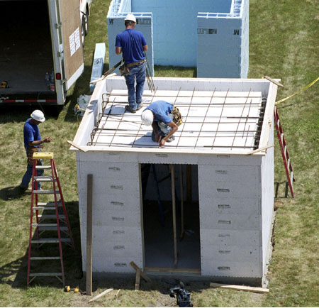 Sioux City, IA -- Lite-Form workers prepare the roofing with rebar prior to pouring cement. The cement filled foam formed walls are reinforced with steel rebar. The Safe Room may be built into new housing or added inside or outside to existing structures at a relatively low cost. It's contruction is simple enough that it can be built by do-it-yourselfers. Photo by Dave Gatley/FEMA Photo